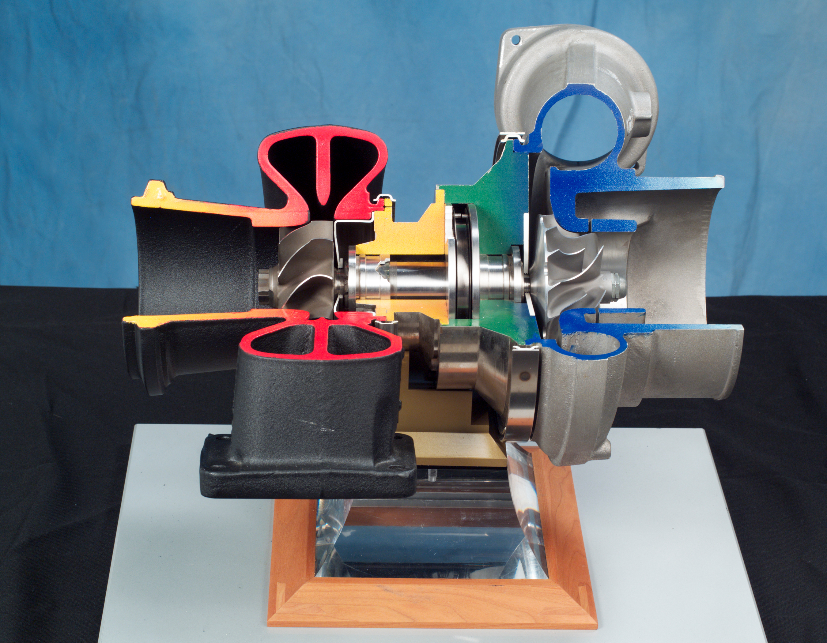 Turbocharger cutaway used for many aerospace power and propulsion applications. Made by Mohawk Innovative Technology, Inc.